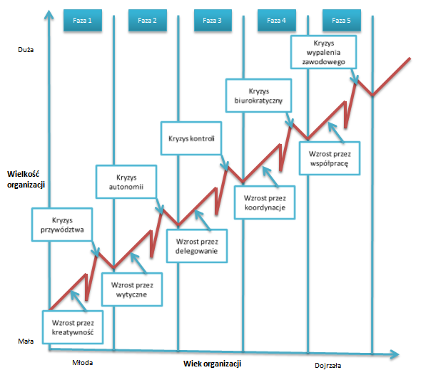 Greiner Lifecycle of organization evolution